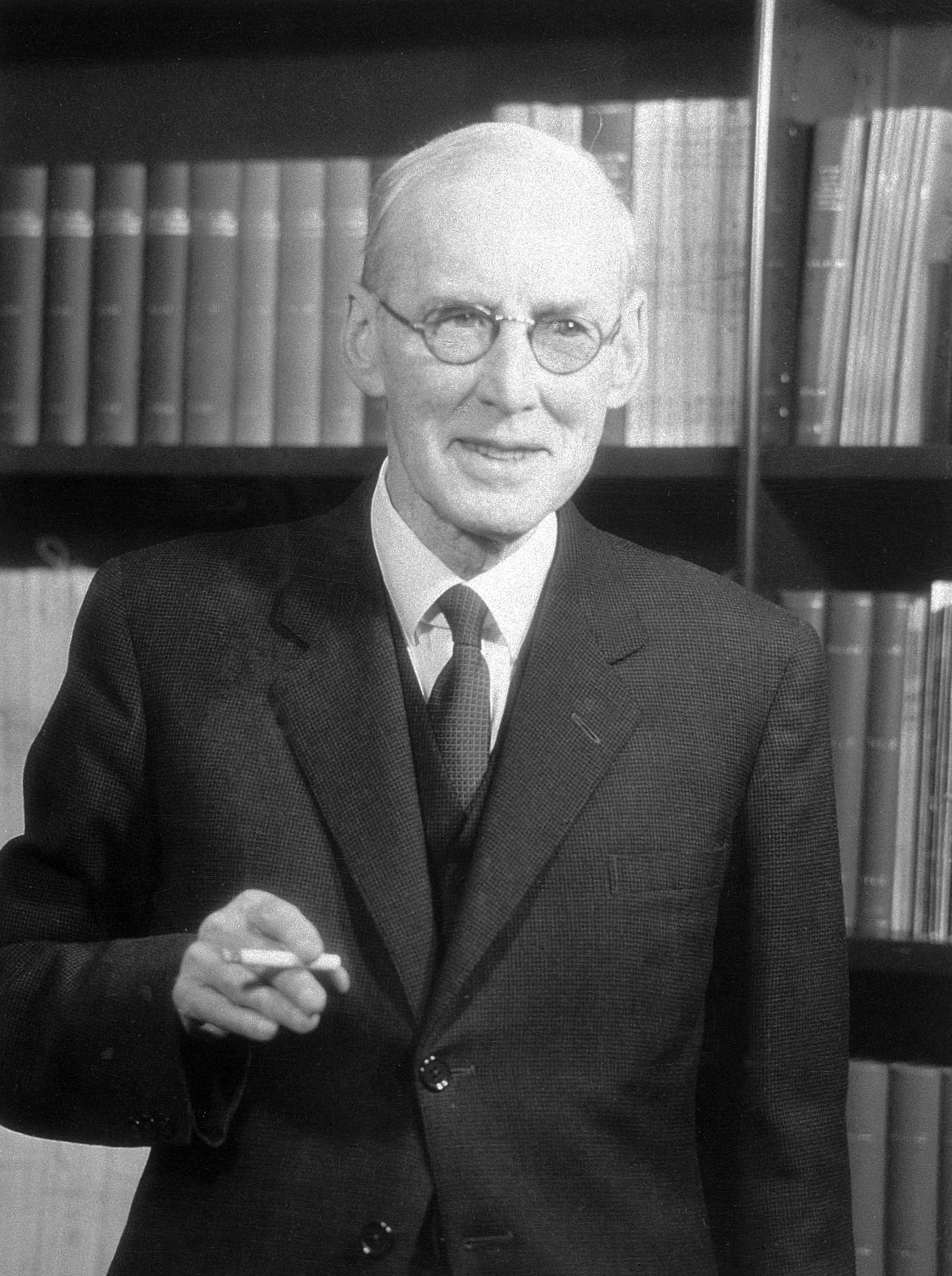 Photograph of Professor R. T. Leiper in front of bookcase, taken by Juliet Haddon, St. Alban's, 1960. Photograph commissioned by the Bureau of Helminthology.